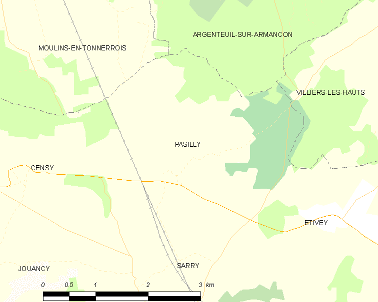 Map of French municipality Pasilly